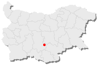 Map of Bulgaria, the red point is the position of Purvomay.